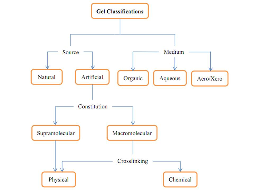 Clas of Gels